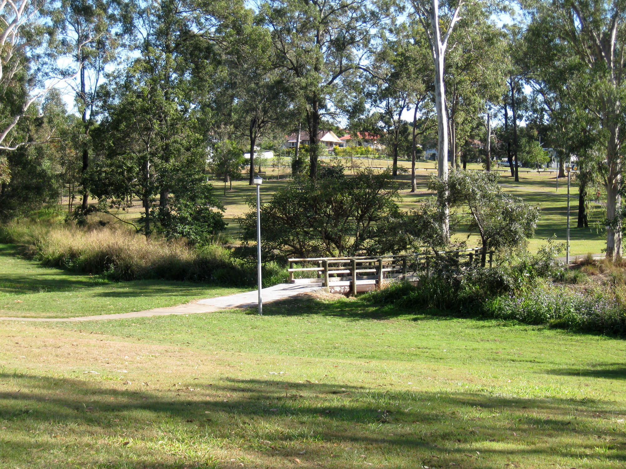 Australian native vegetation in Kev Hooper park in Inala